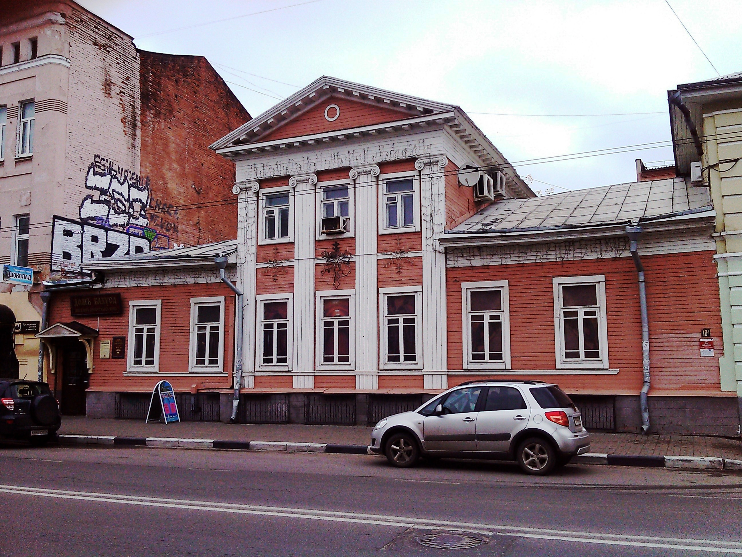 Nikitin House. Yaroslavl